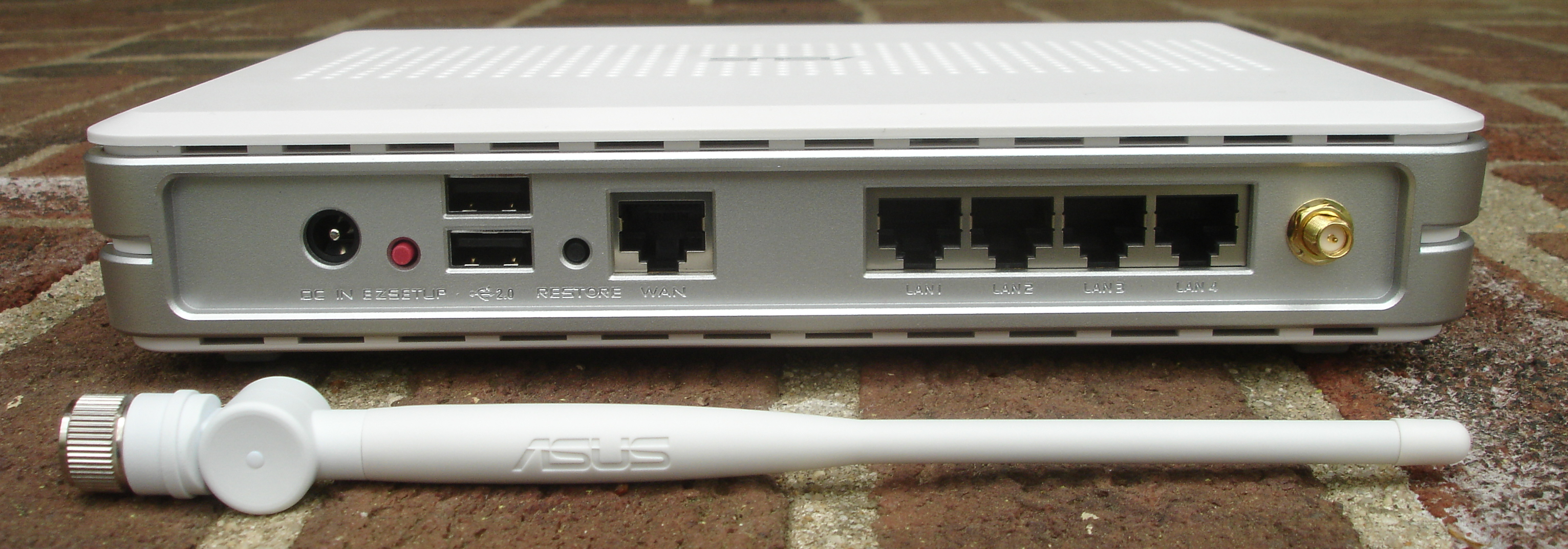 Asus WL-500g Premium wireless router, rear view showing ports